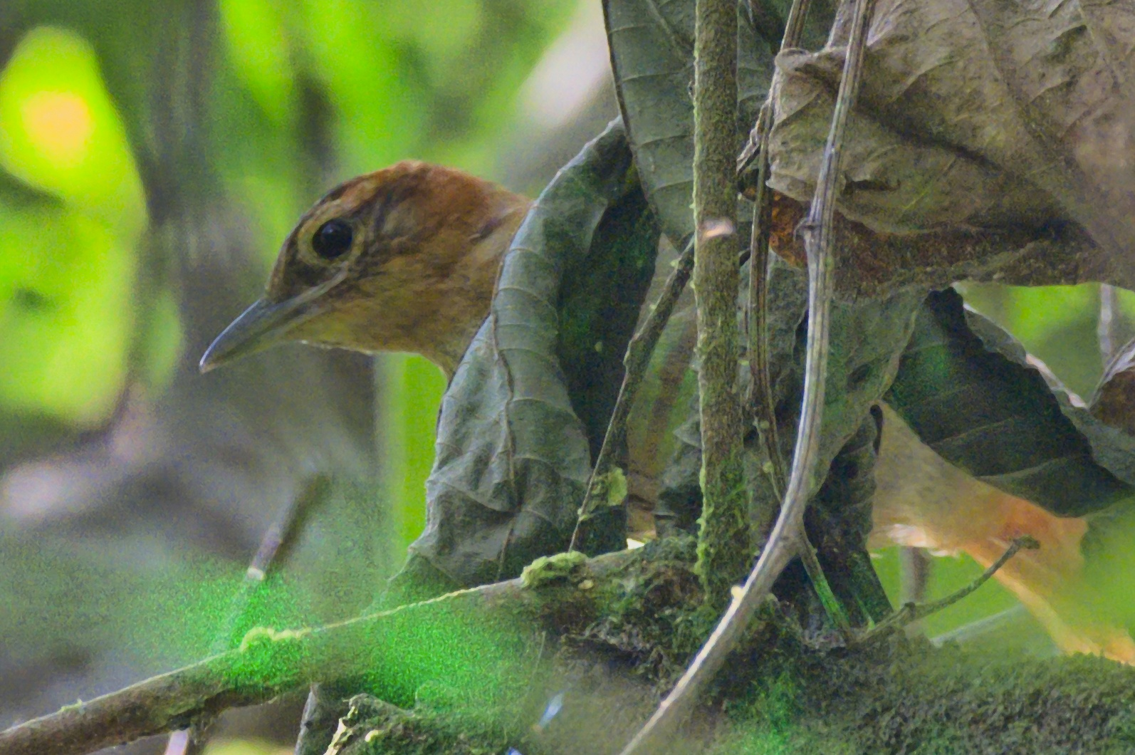 Slaty-winged Foliage-gleaner at Río Claro Reserve